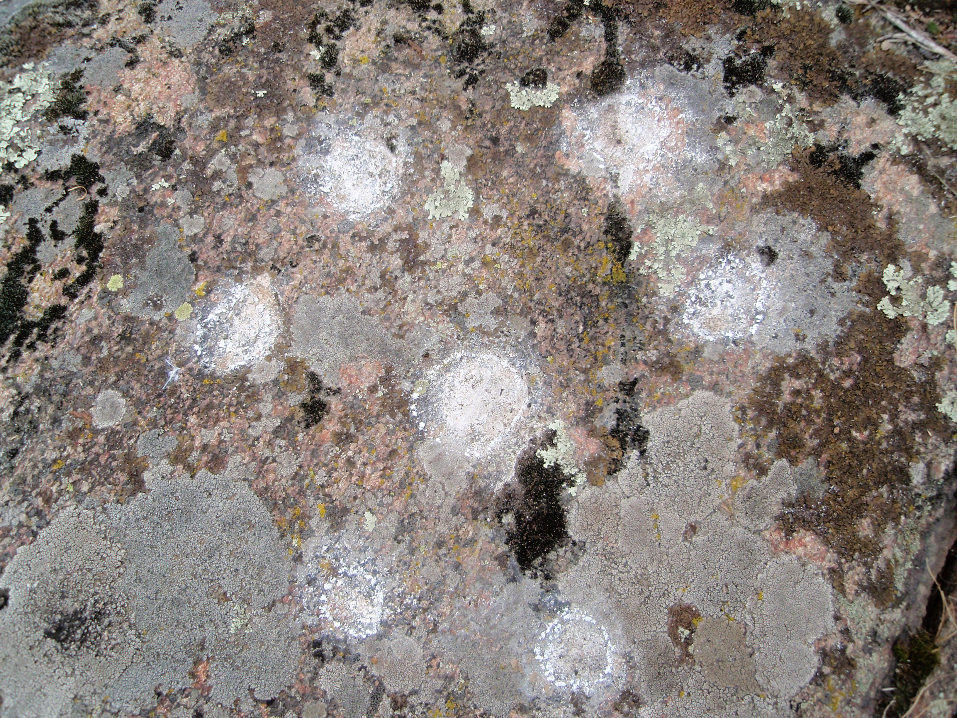 Cup marks resembling pleiades